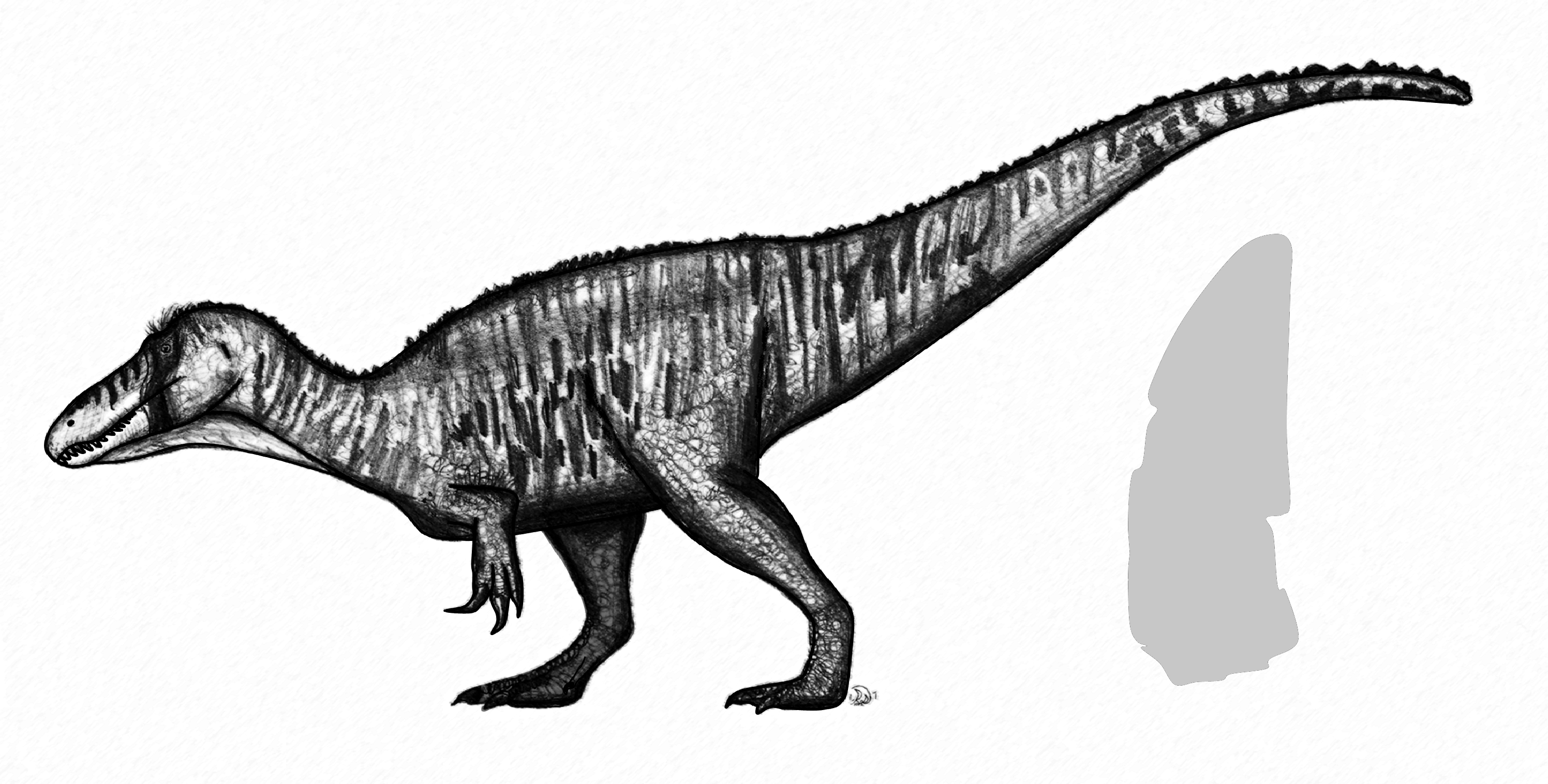 Speculative restoration of O. crassiserratus as an intermediate form between a megalosaurid and Baryonyx, along with the holotype tooth